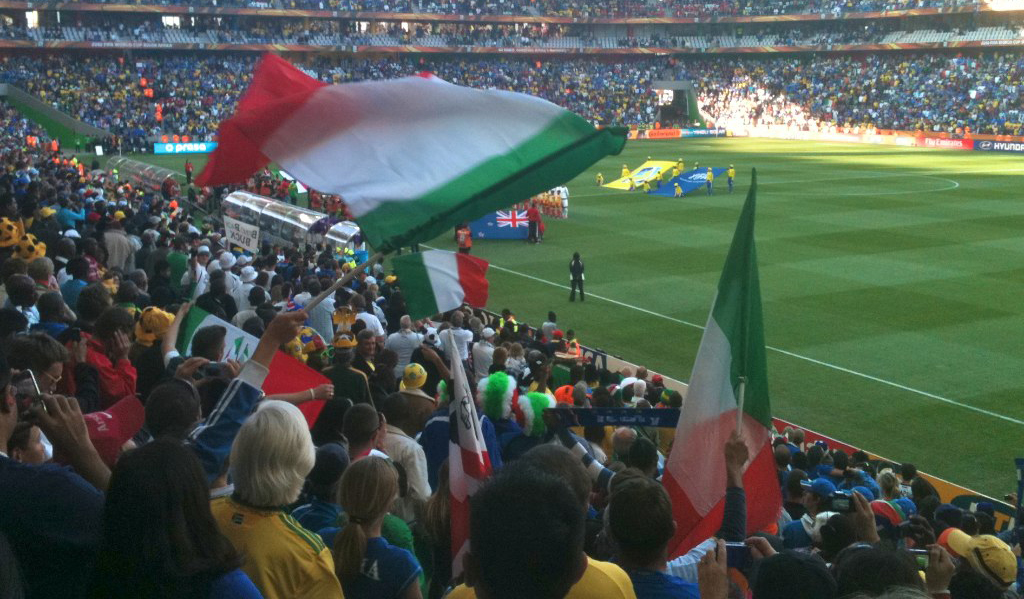 Teams on the pitch before the kick-off of the game between Italy and New Zealand at FIFA World Cup 2010, 20 June 2010, Mbombela Stadium, Mbombela